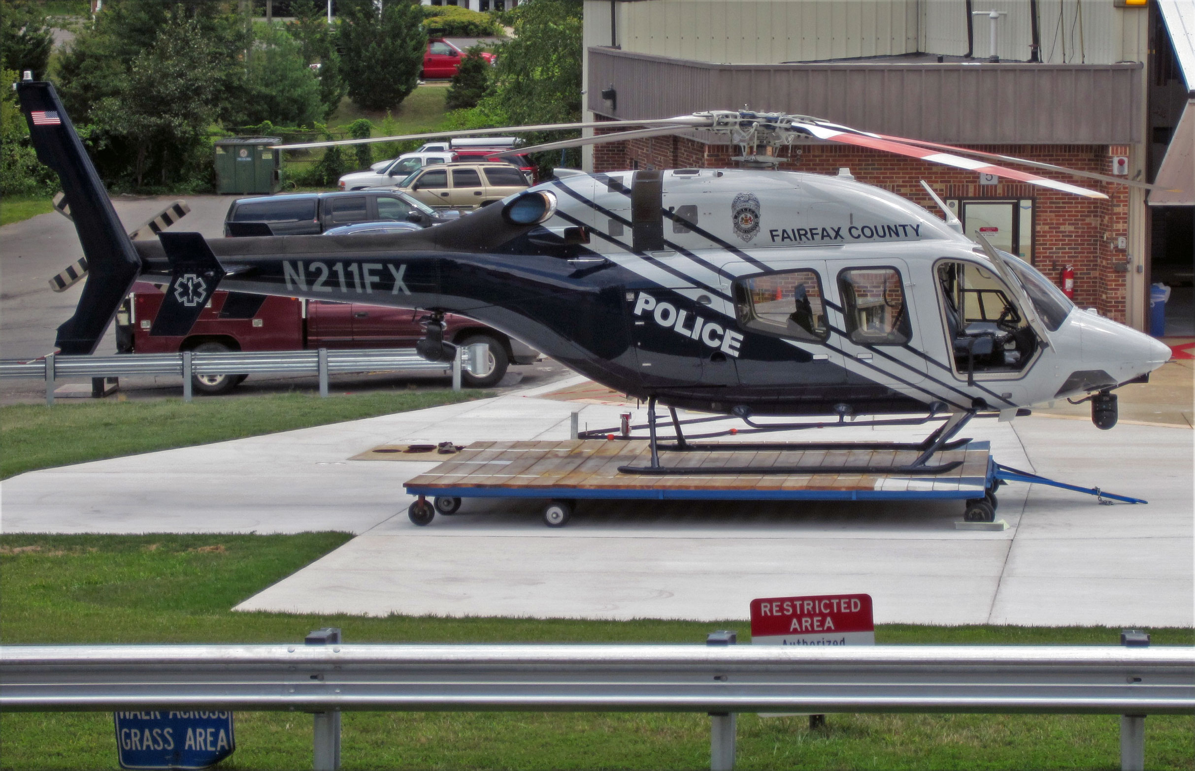 One of Fairfax County's new police helicopters, on the helipad across from the Fire Academy. Tail number N211FX